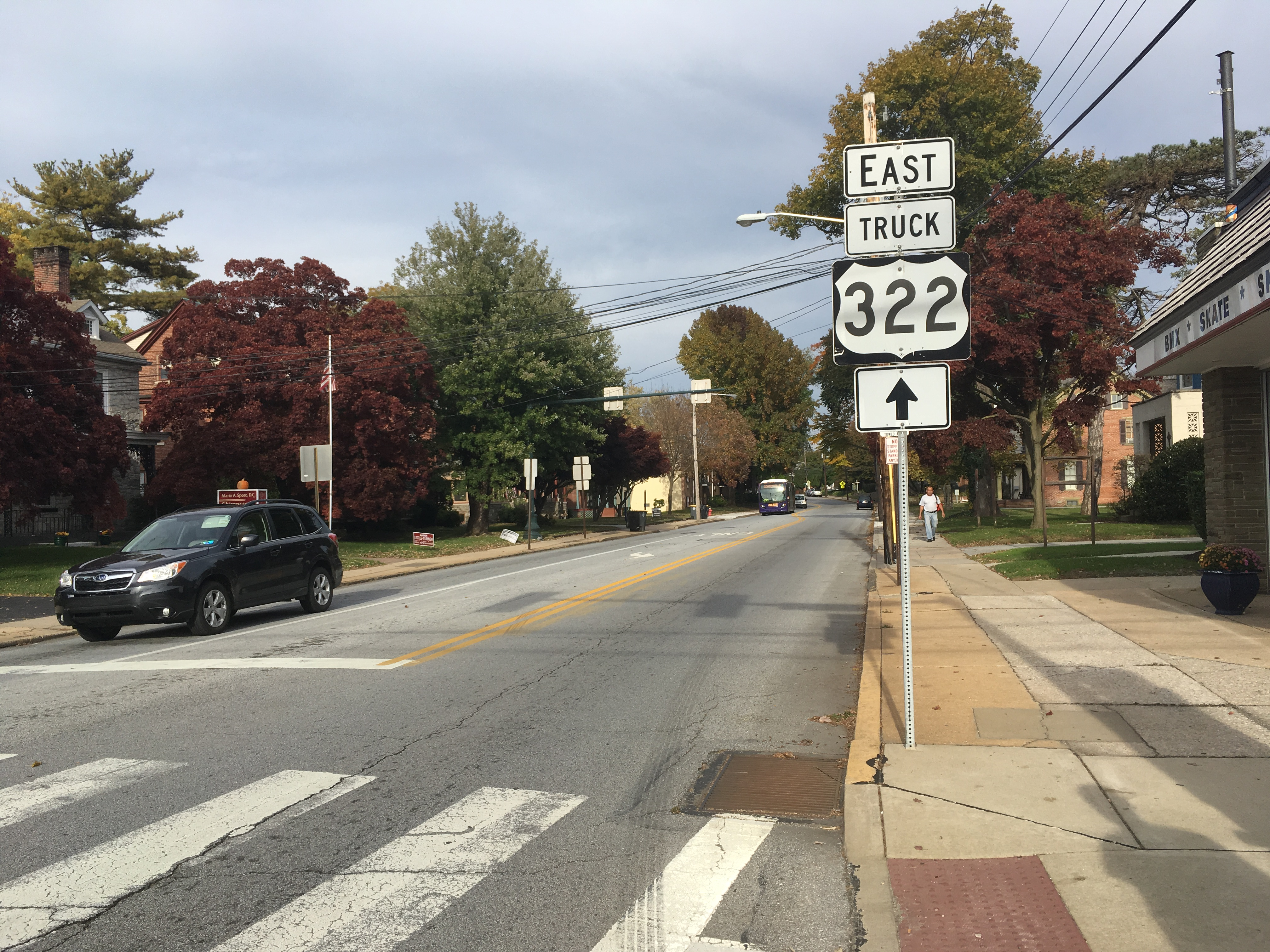 Eastbound U.S. Route 30 Business/U.S. Route 322 Truck (Lancaster Avenue) past the intersection with Pennsylvania Route 282 (Green Street) in Downingtown, Pennsylvania